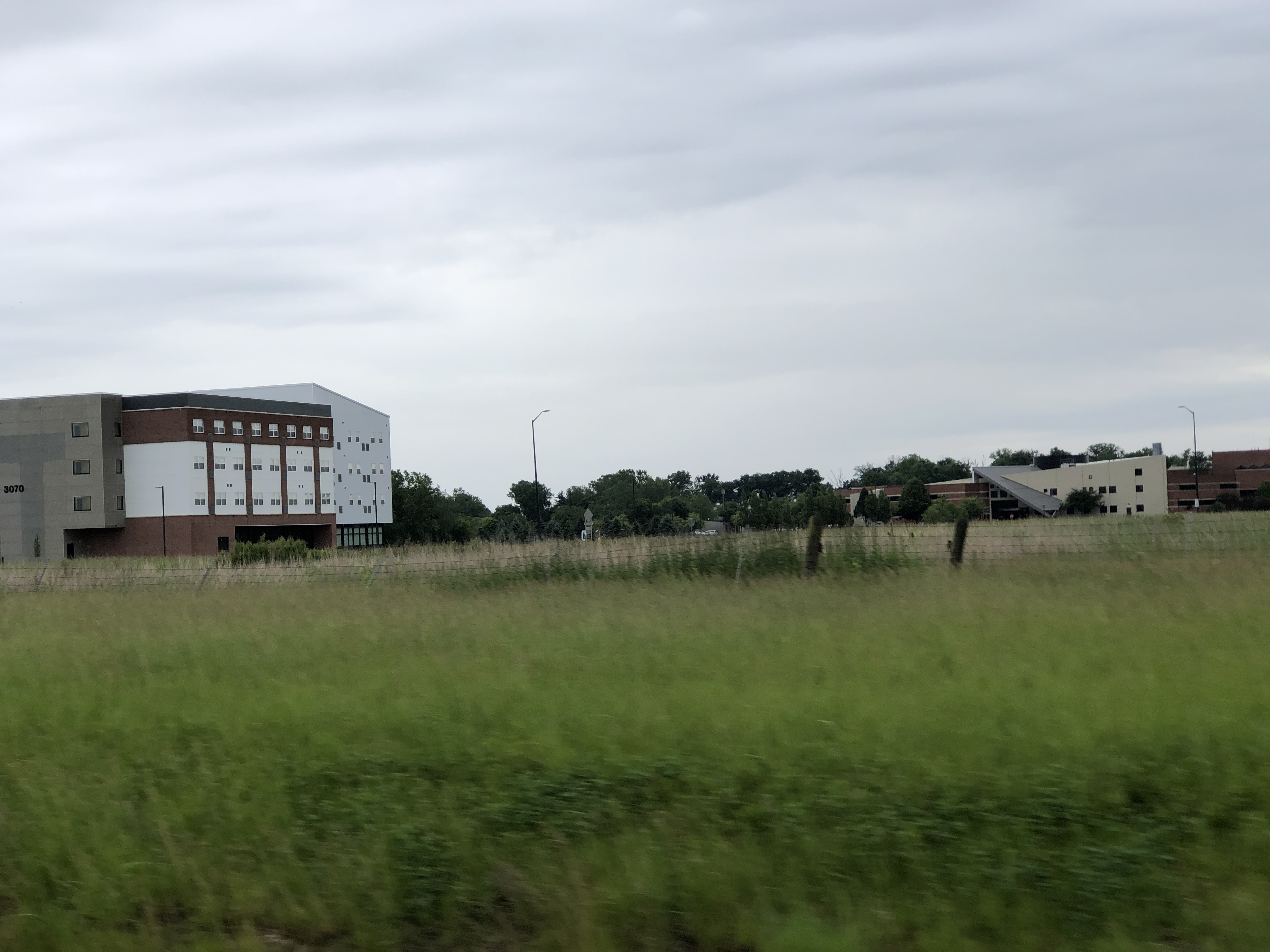 A view of the Terra State Community College campus